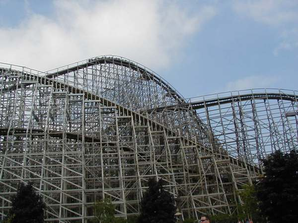 Subject: Mean Streak roller coaster at Cedar Point in Sandusky, Ohio Author: Nick Nolte Taken: August 30, 2001